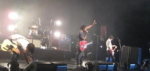 Sydney, August 4th, 2007. Photo I took.